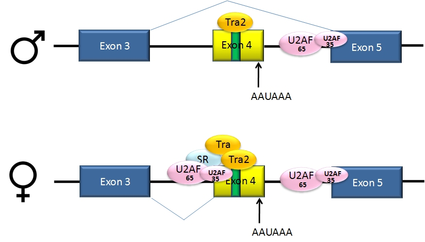 Alternative splicing of Drosophila dsx gene. Pre-mRNAs from the D. melanogaster gene dsx contain 6 exons. In males, exons 1,2,3,5,and 6 are joined to form the mRNA, which encodes a transcriptional regulatory protein required for male development. In females, exons 1,2,3, and 4 are joined, and a polyadenylation signal in exon 4 causes cleavage of the mRNA at that point. The resulting mRNA is a transcriptional regulatory protein required for female development[1]. This is an example of exon skipping alternative splicing. The intron upstream from exon 4 has a weak-consensus polypyrimidine tract, to which U2AF proteins bind poorly without assistance from splicing activators. This 3' splice acceptor site is therefore not used in males. Females, however, produce the splicing activator Transformer (Tra). The SR protein Tra2 is produced in both sexes and binds to an ESE in exon 4; if Tra is present, it binds to Tra2 and, along with another SR protein, forms a complex that assists U2AF proteins in binding to the weak polypyrimidine tract. U2 is recruited to the associated branch point, and this leads to inclusion of exon 4 in the mRNA[1][2]. Notes ↑ a b Lynch KW, Maniatis T (August 1996). "Assembly of specific SR protein complexes on distinct regulatory elements of the Drosophila doublesex splicing enhancer". Genes Dev. 10 (16): 2089–101. PMID 8769651. ↑ Graveley BR, Hertel KJ, Maniatis T (June 2001). "The role of U2AF35 and U2AF65 in enhancer-dependent splicing". RNA 7 (6): 806–18. PMID 11421359. PMC: 1370132.